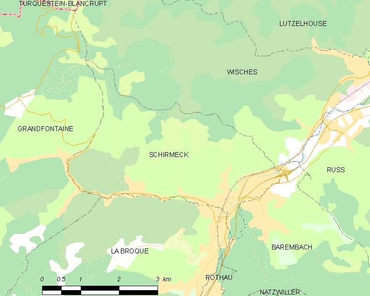 Map of French municipality